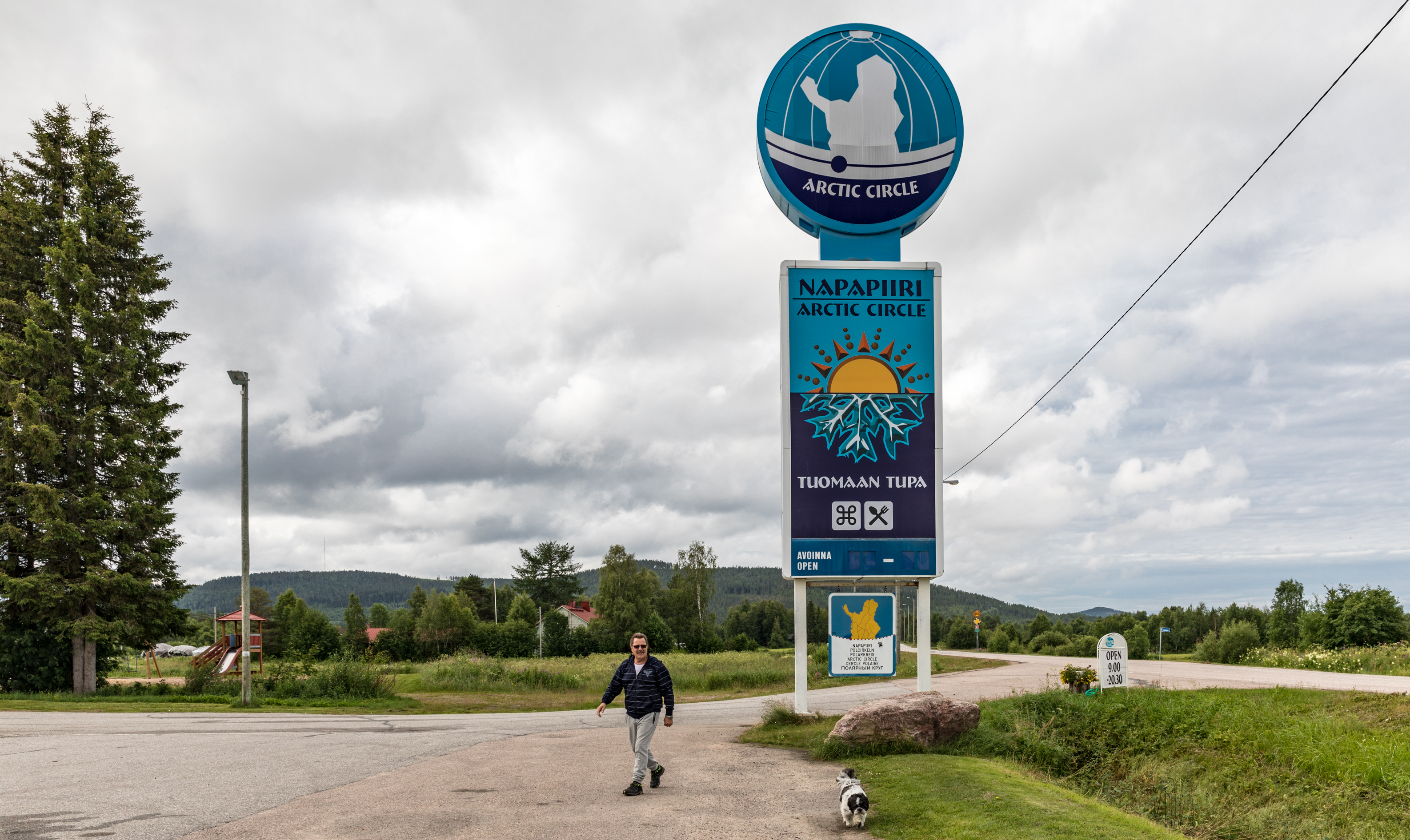 Arctic Circle in Juoksenki, Lapland, Finland